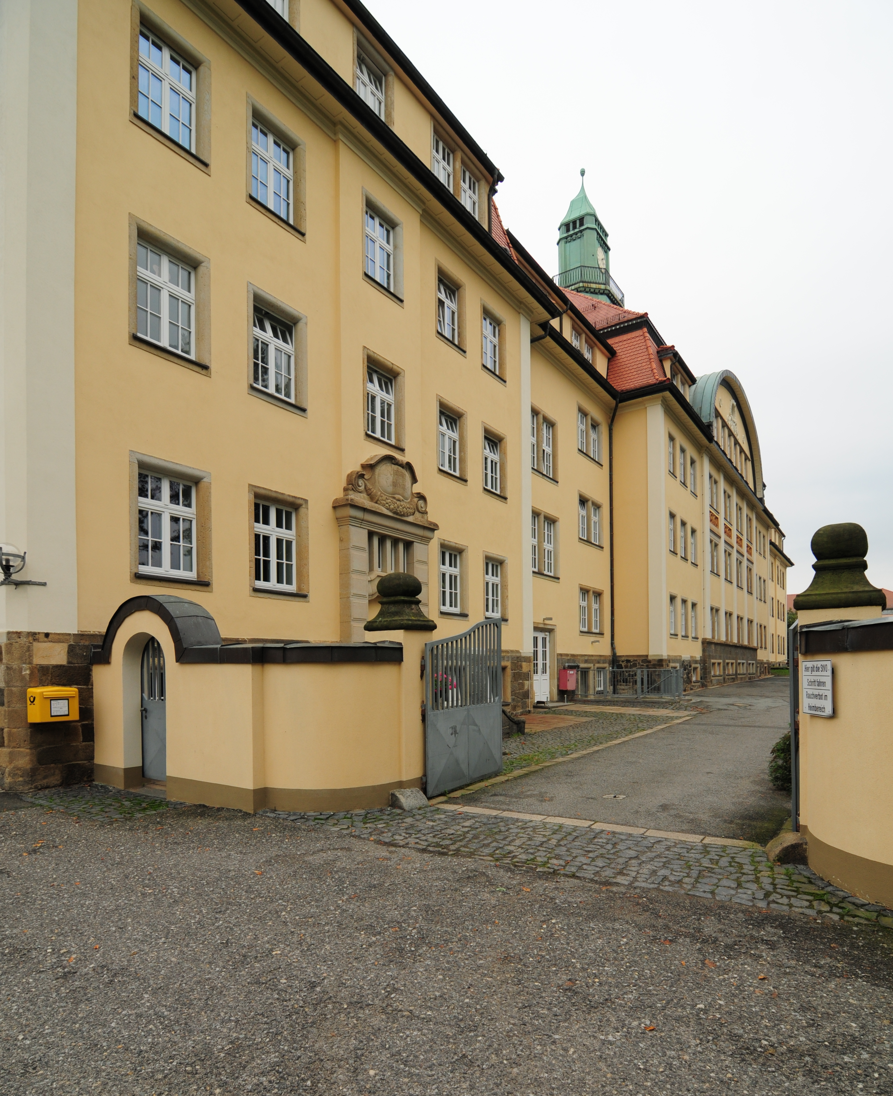 Grosshennersdorf, Katharinenhof - rehab hospital, 1909-1911 newly constructed (district Landkreis Görlitz, Free State of Saxony, Germany)